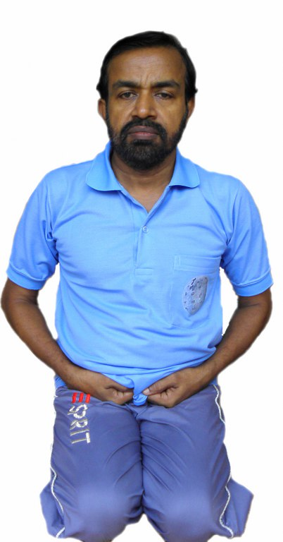 Symbol of yoga2